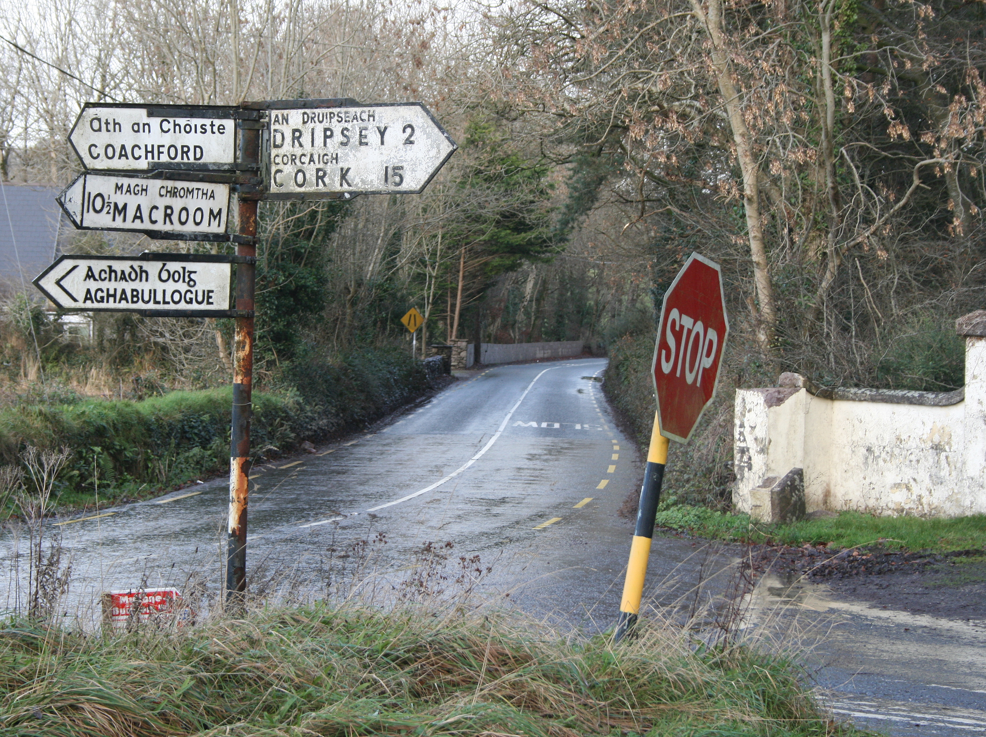 Looking north on the R619 near Dripsey, County Cork.